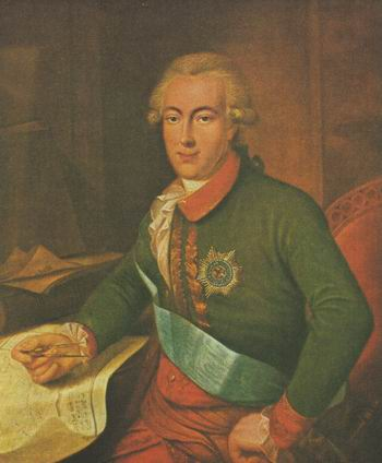 Portrait of Louis I, Grand Duke of Hesse (1753-1830)